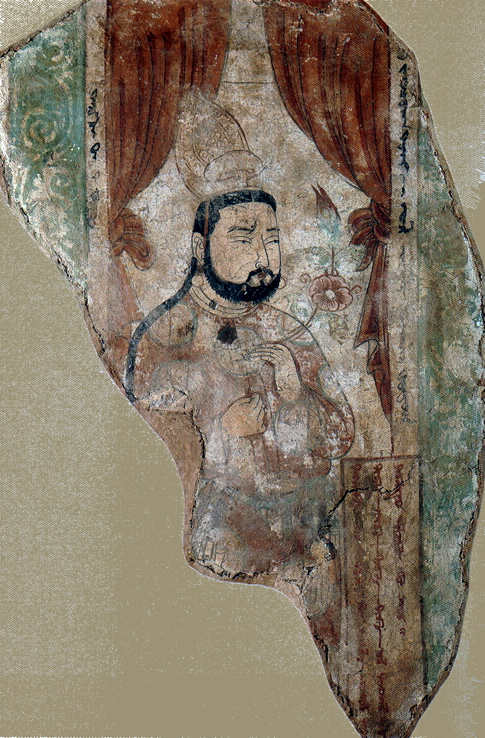 Uighur noble praying